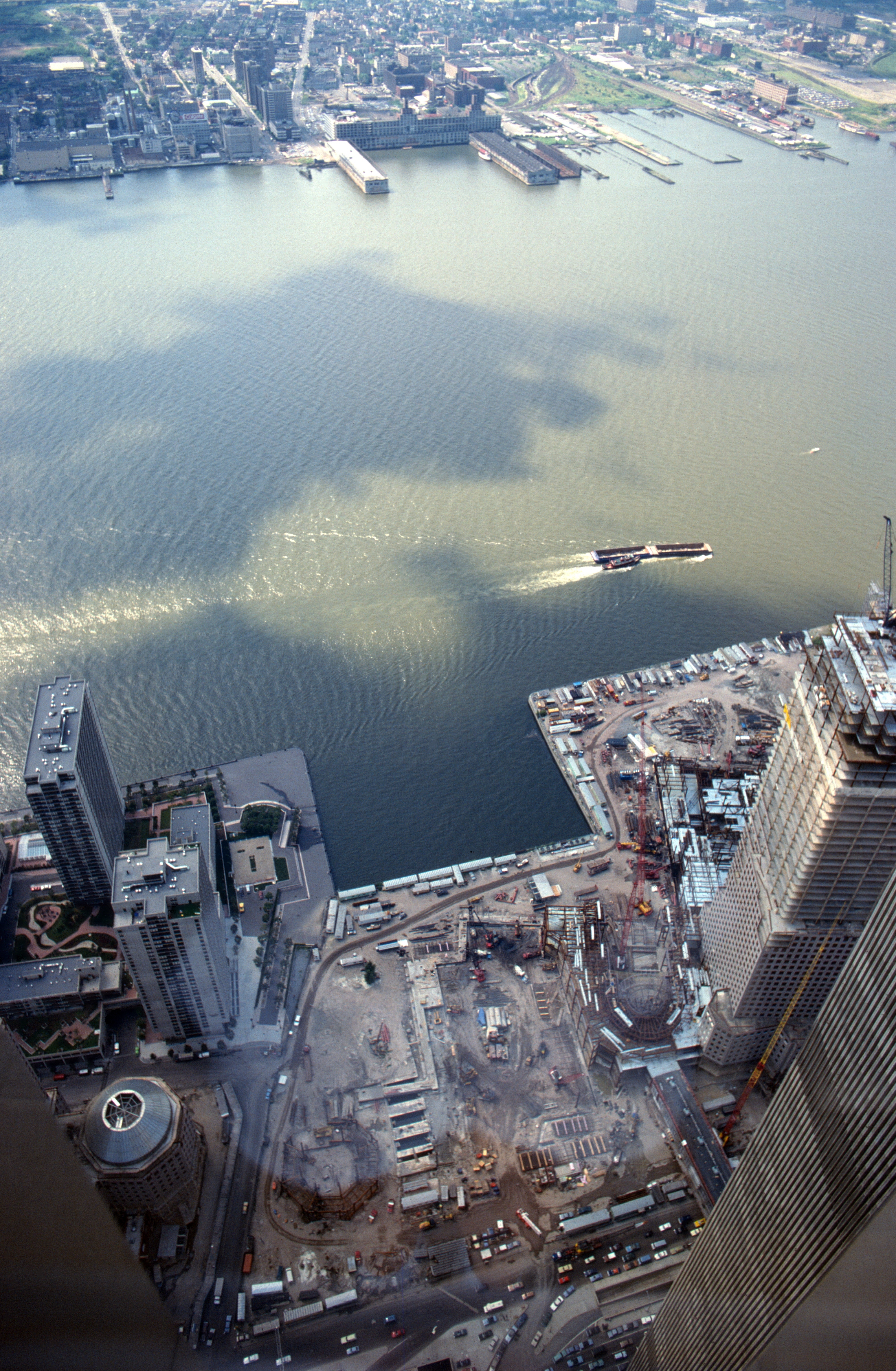 2 World Financial Center construction site, 1984.